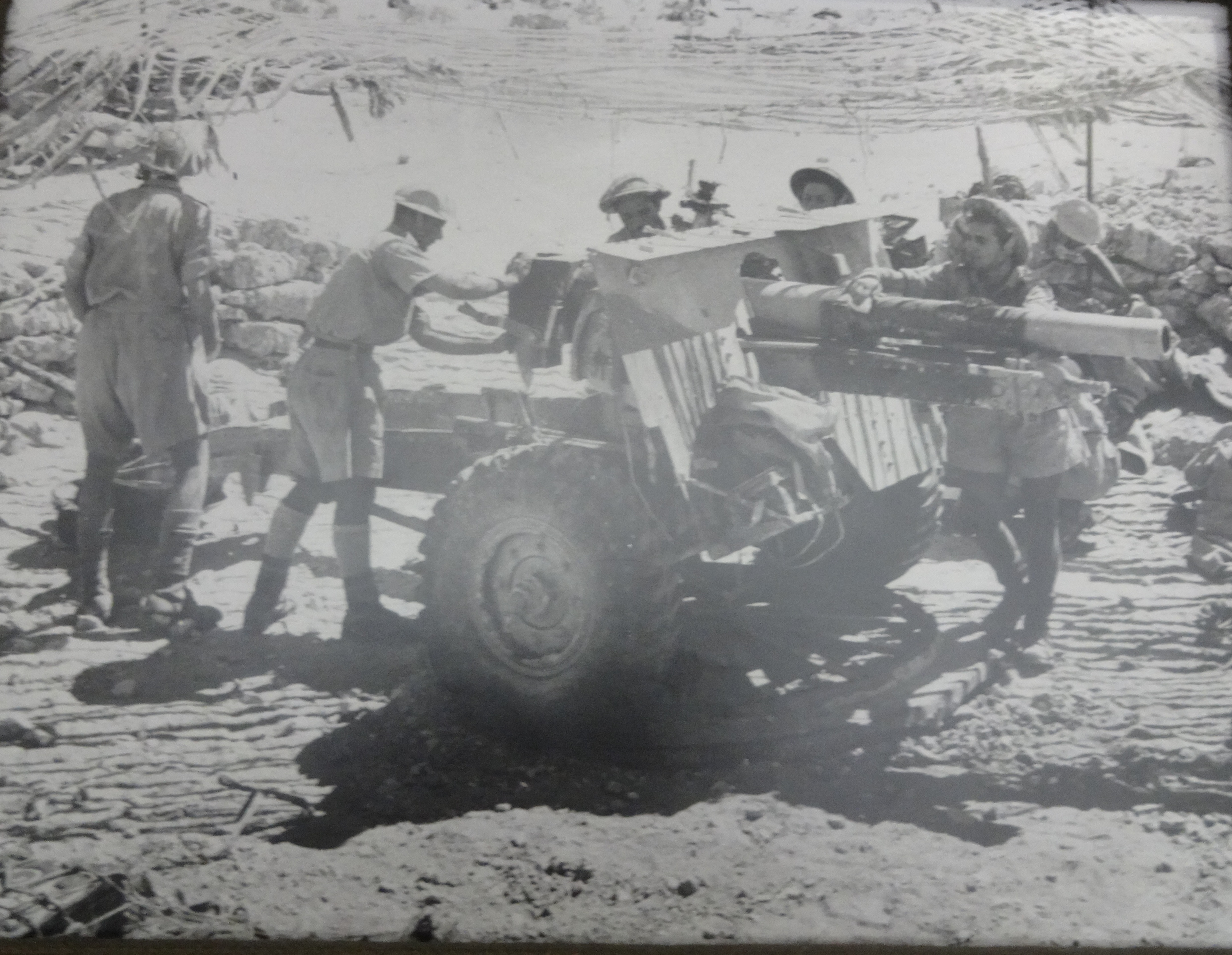 Greek artillery in the Second Battle of El Alamein